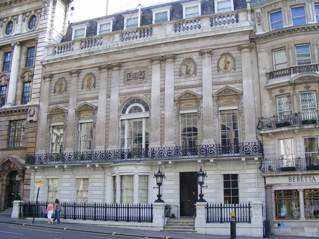 White's Club St James's Street A private members club over 250 years old. Its members include some of the most distinguished members in society as well as members of the Royal family. Renowned for its heavy gambling sessions, entry continues to be widely sought after by today's gentry. It has been at this site (37-38) since 1778. See White's